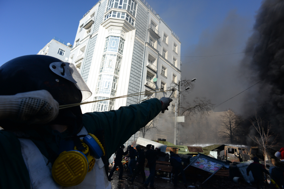 Development of clashes in Kyiv, Ukraine. Events of February 18, 2014